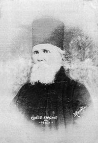 Averchie of Avdela